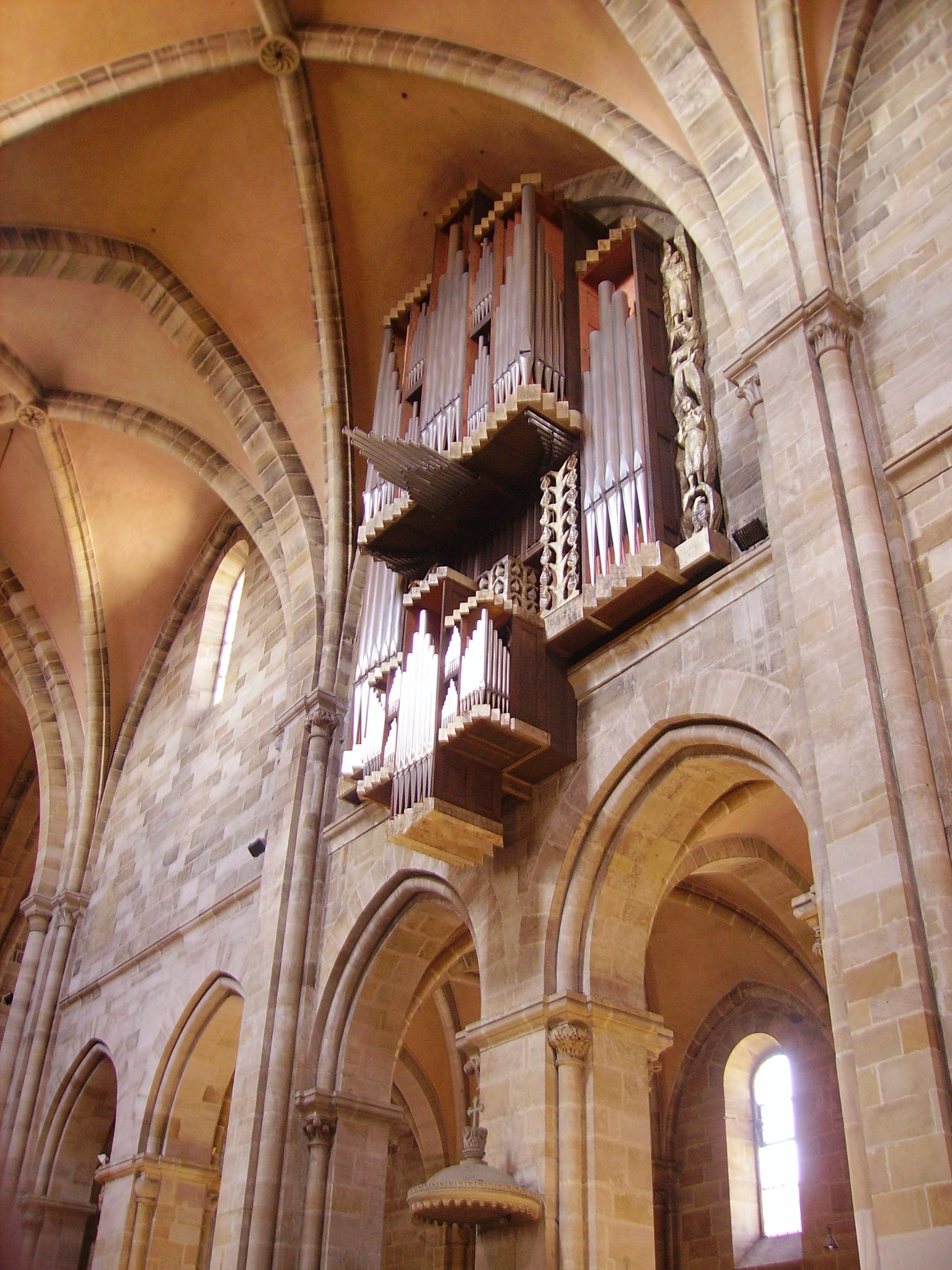 Organ of the Imperial Cathedral Sts. Peter, Paul & George, Bamberg